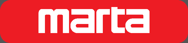 Wikivoyage route icon for MARTA's Red line.